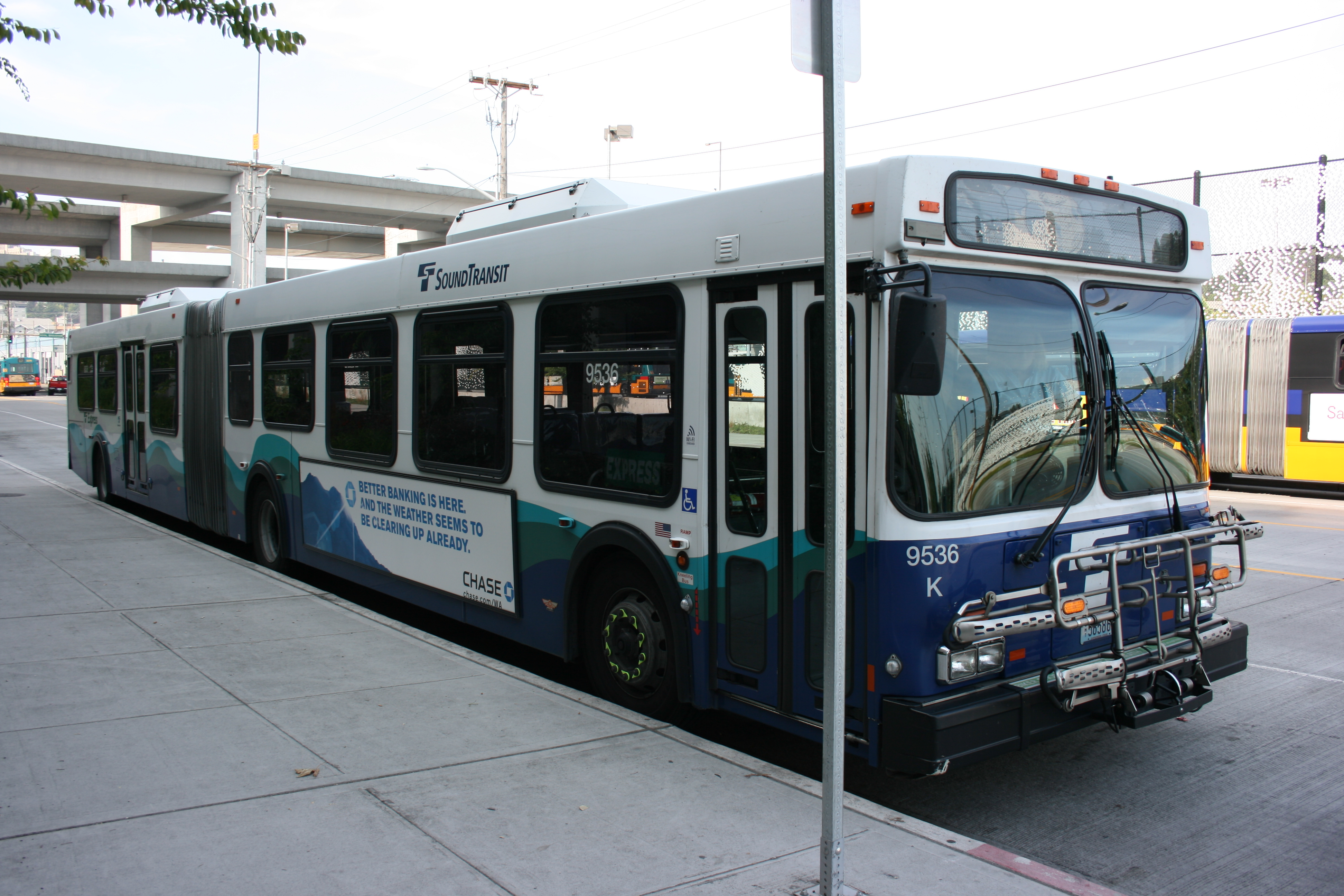 New Flyer D60LF #9536 owned by Sound Transit and operated by King County Metro. Laying over between runs on route 545.